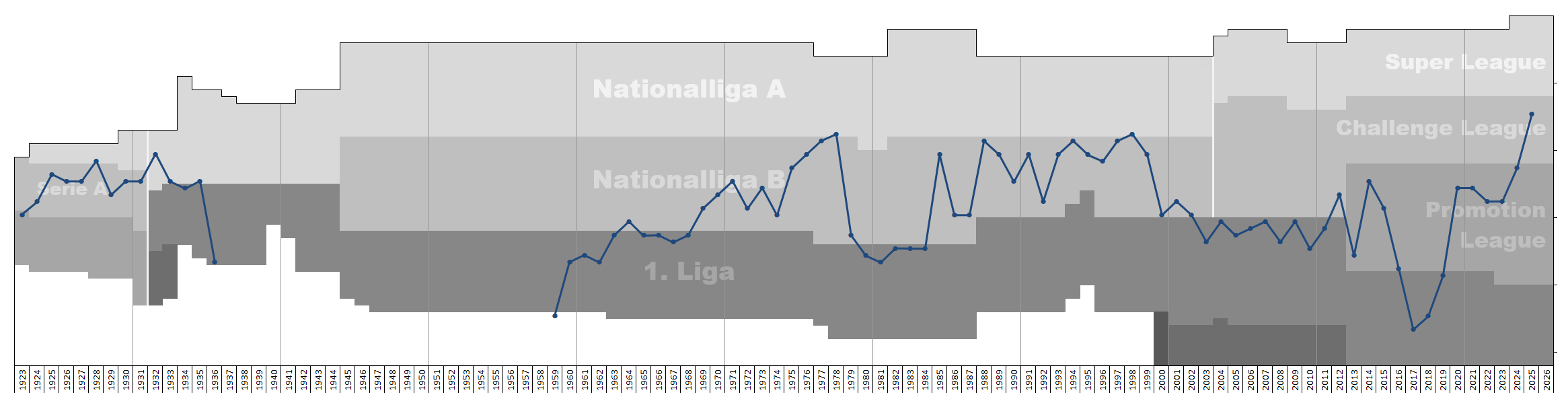 Chart of end-season table positions for Etoile Carouge FC in the Swiss football league system. Data source: RSSSF, , football.ch